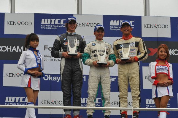 Podium